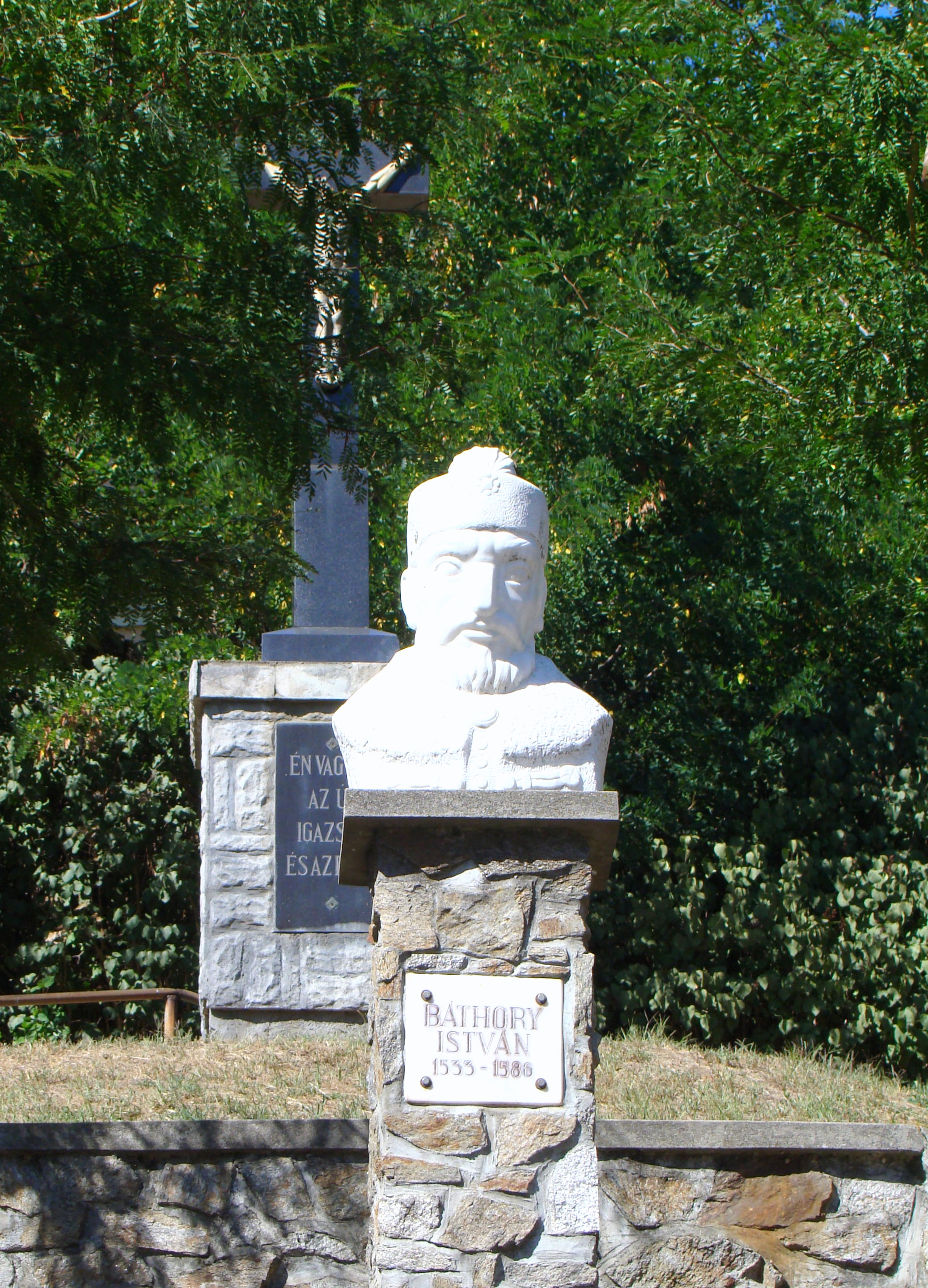 Șimleu Silvaniei, Sălaj county, Romania